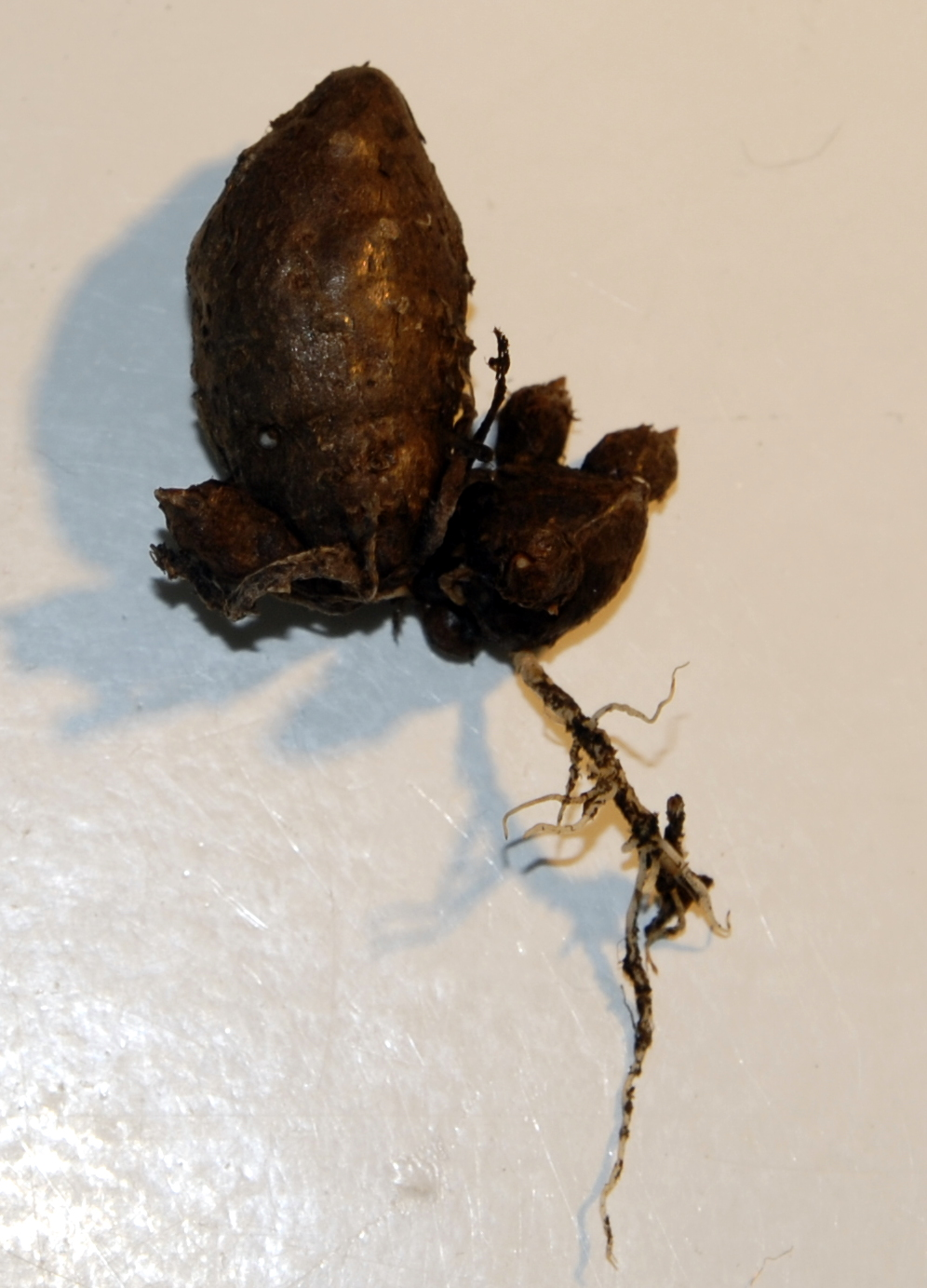 Amorphophallus myosuroides tuber with tubercles